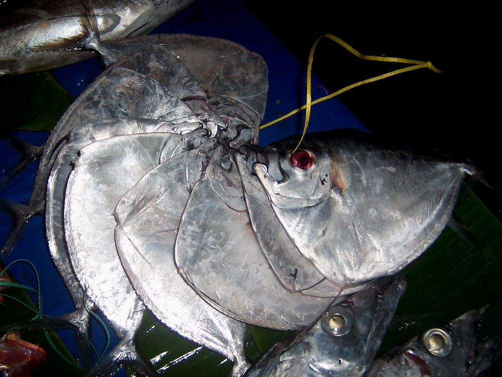 Moonfish, Mene maculata, sold at fishmarket of Palabuhanratu, West Java.